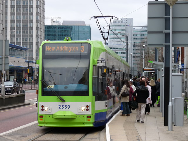 Wellesley Road Tram Stop A busy tram stop on a busy road; next stop East Croydon.